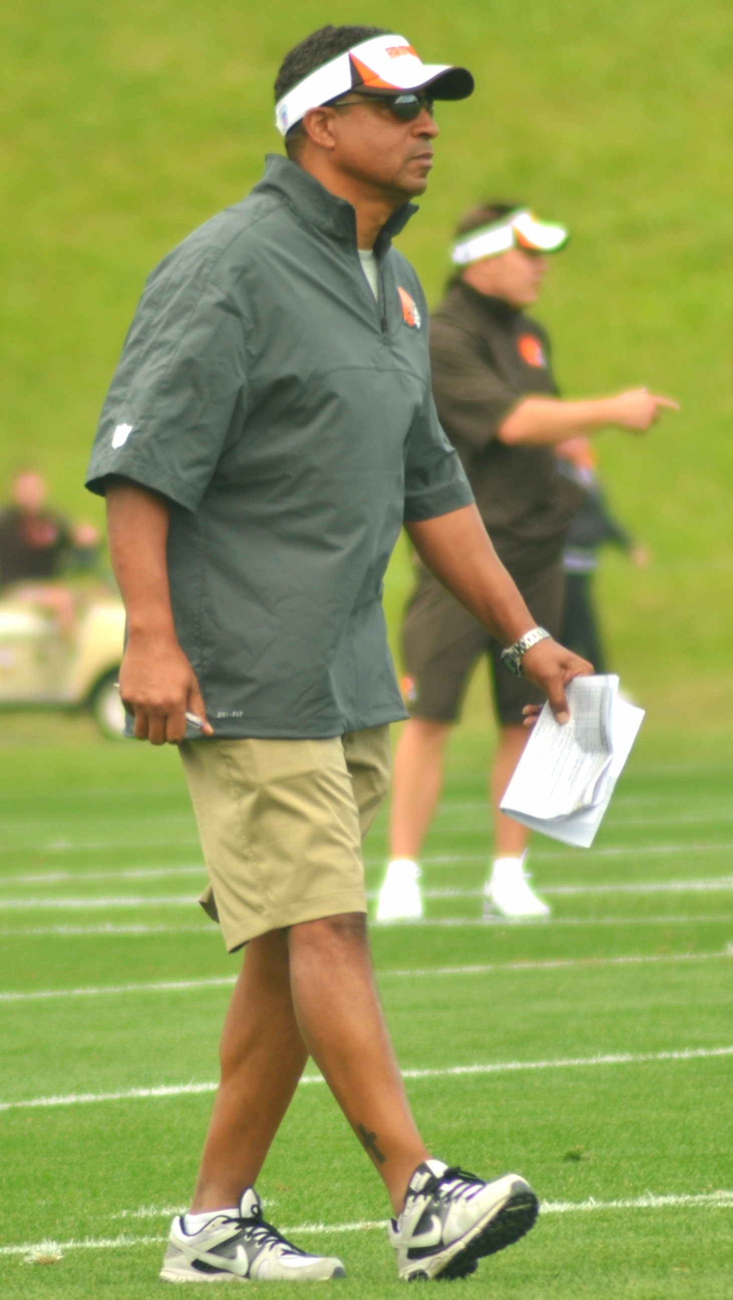 Cleveland Browns defensive coordinator Ray Horton at 2013 training camp.